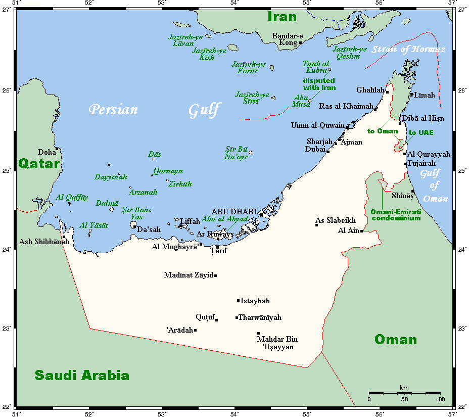 A map showing the UAE's cities and main towns, along with nearby areas. This map's source is here, with the uploader's modifications, and the GMT homepage says that the tools are released under the GNU General Public License.